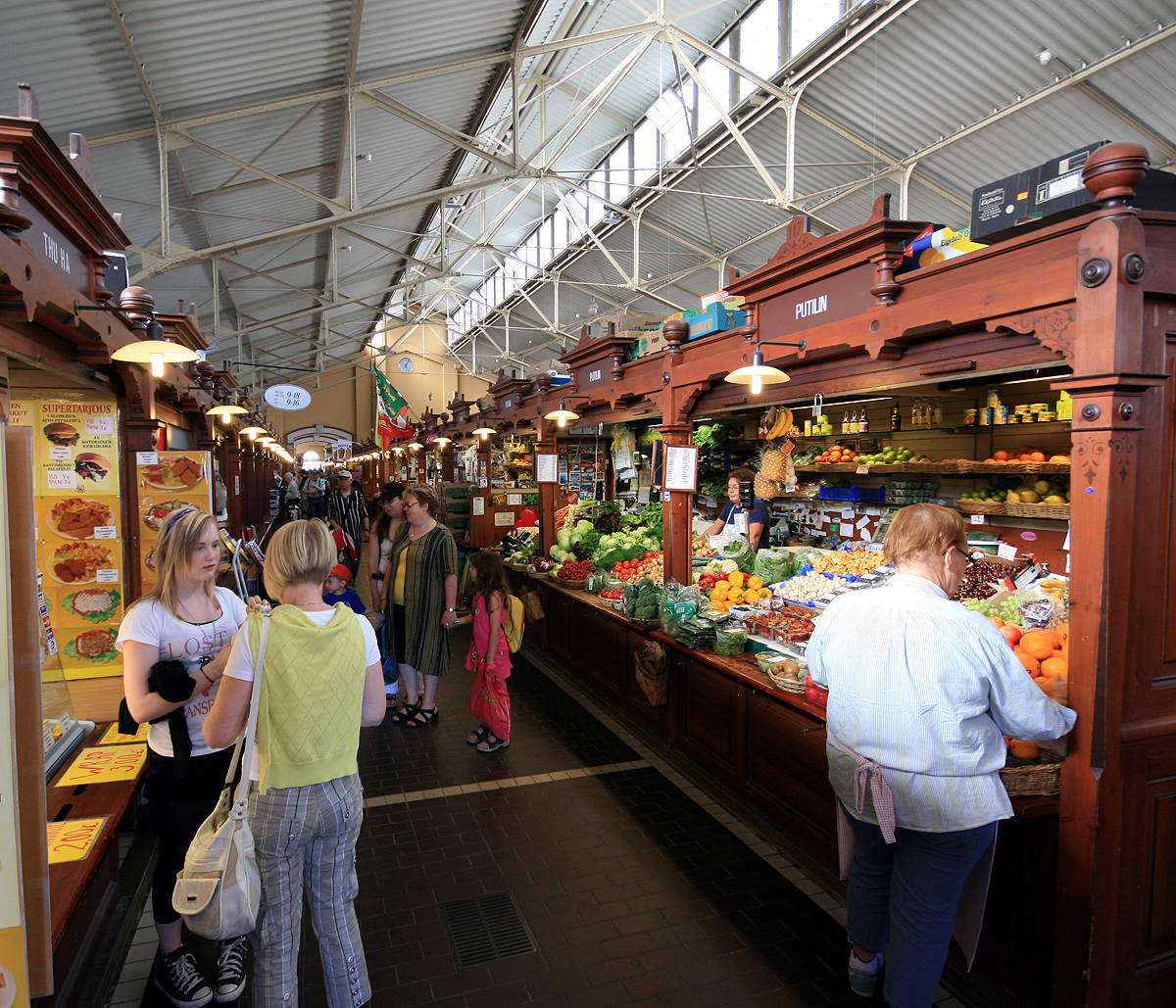 Interior of the Old market hall in Helsinki, Finland.